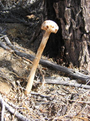 The fungus Battarreoides diguetii (Pat. & Har.) R. Heim & T. Herrera. Specimen photographed in San Diego, San Diego Co., California, USA, and later displayed at the On display at the SDMS fungus fair.